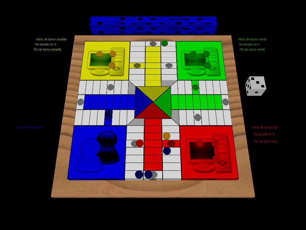 Screenshot of the open source software project of the game Parchís